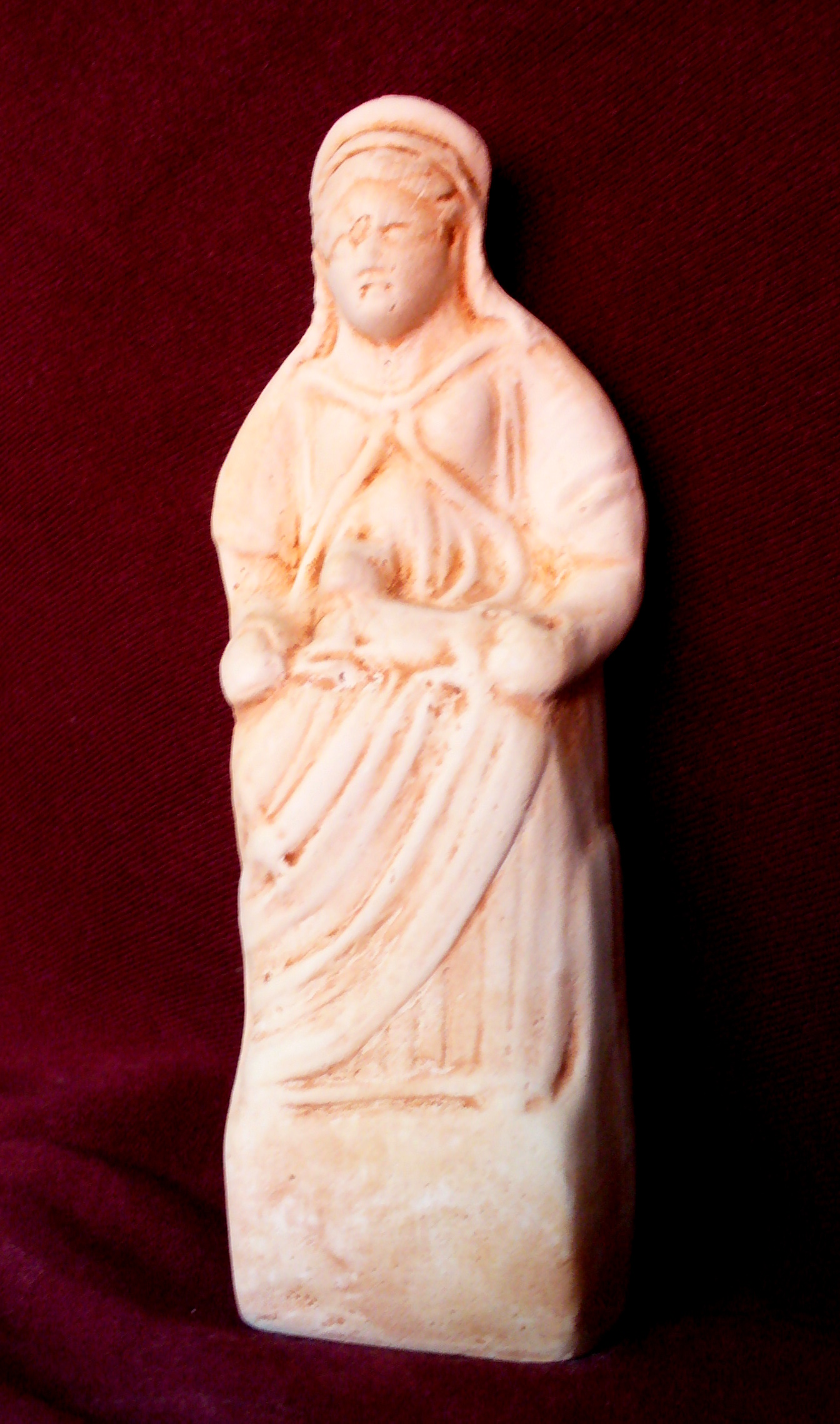 Mother goddess with a little dog, typical for the region of the belgian people of Treveri.